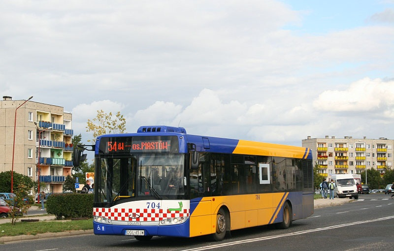 Solaris Urbino 12 W24 Mk3 (#704, reg. DGL 65JW) in Głogów, Poland. Built 2006, KM Głogów operator.